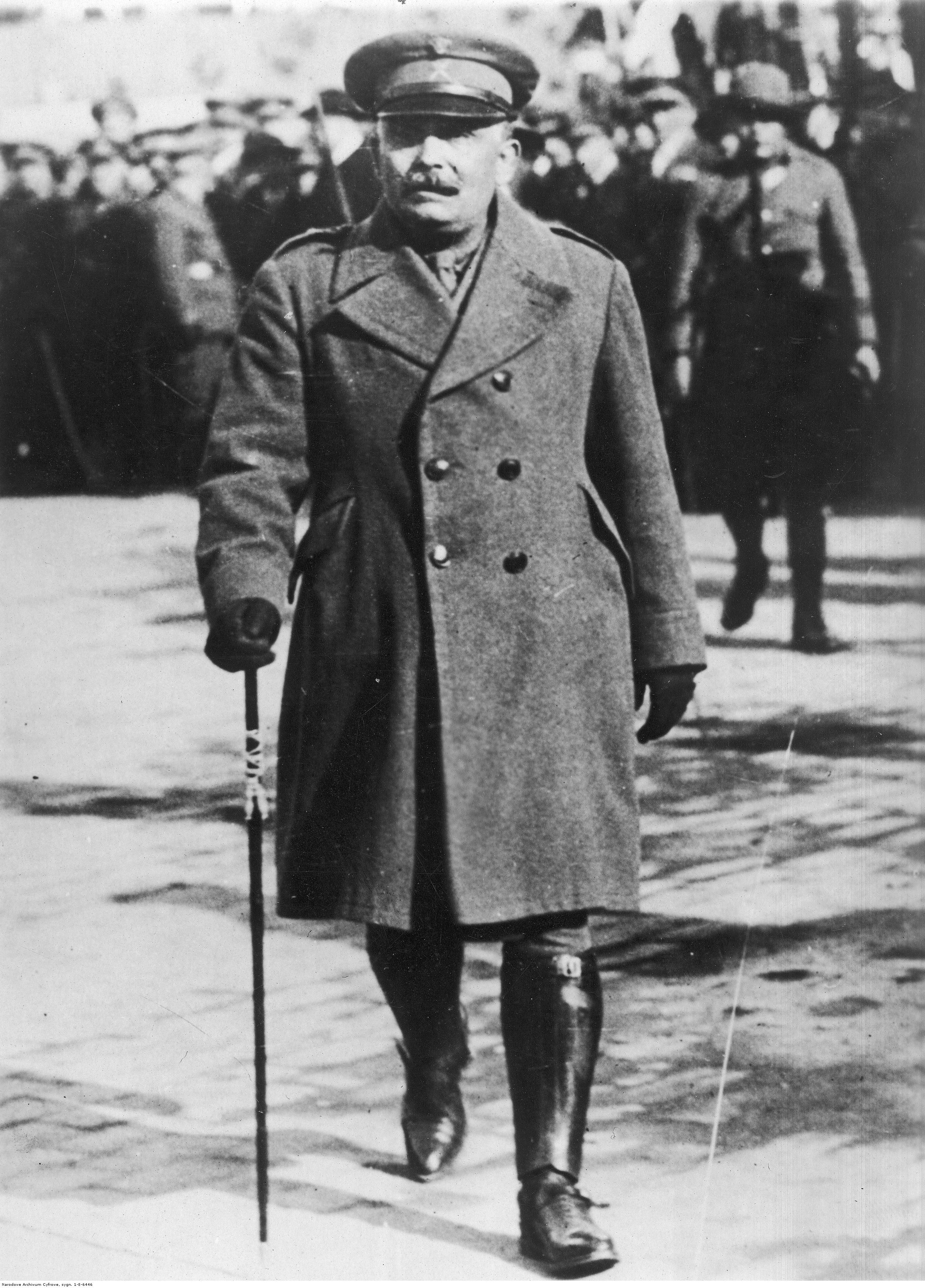 General Alberto Castro Girona in front of the Melilla Garrison.